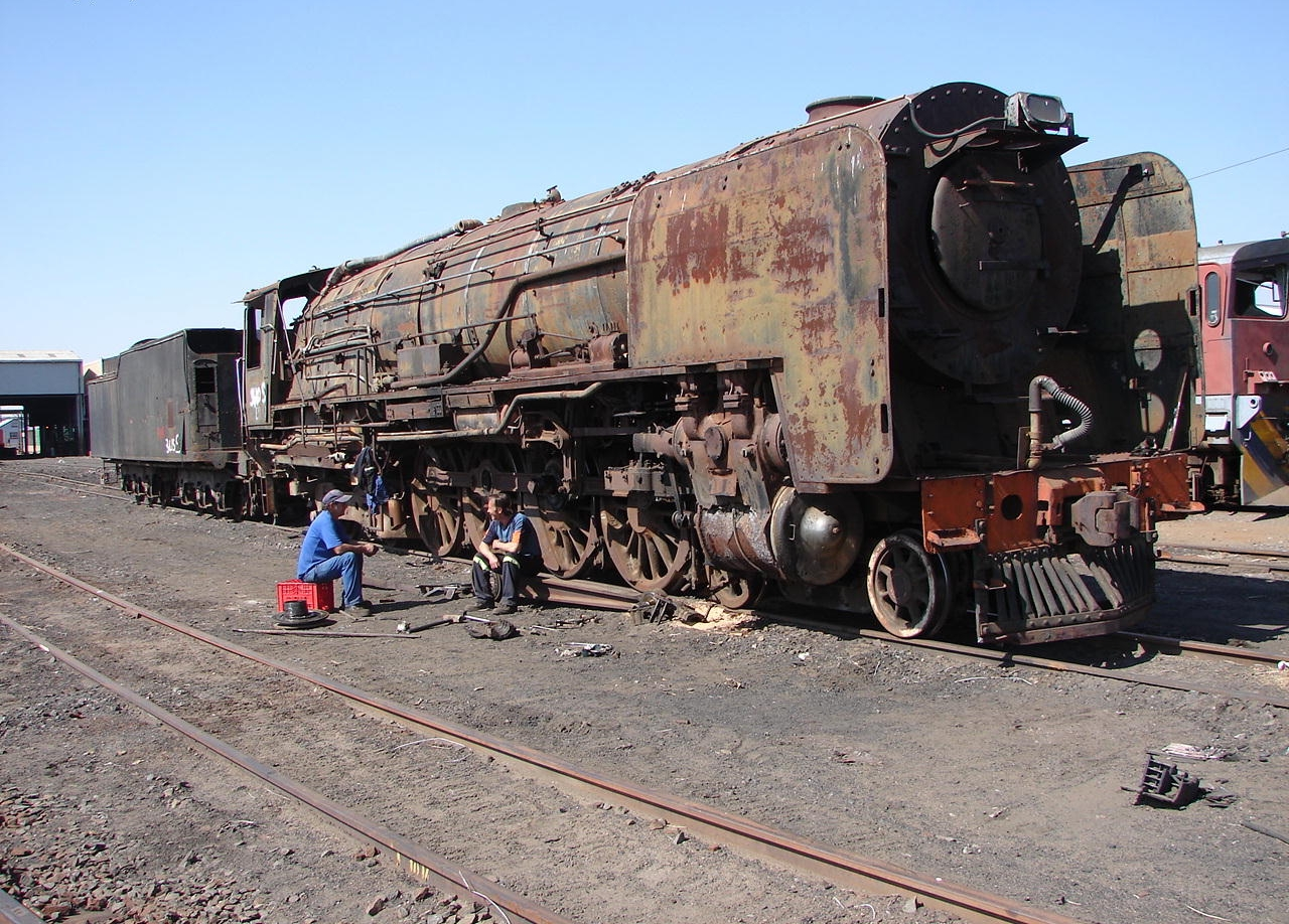 SAR Class 25NC 3440 (4-8-4) Builder's Number: Henschel 28759 Type: Non condensing Location: Beaconsfield, Kimberley, Northern Cape